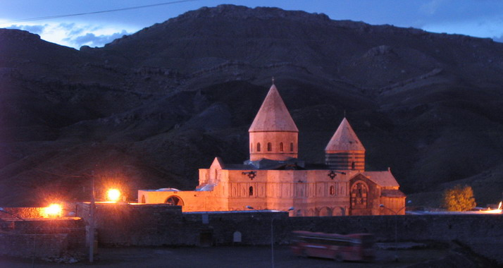 Saint Thaddeus Monastery, Iran.